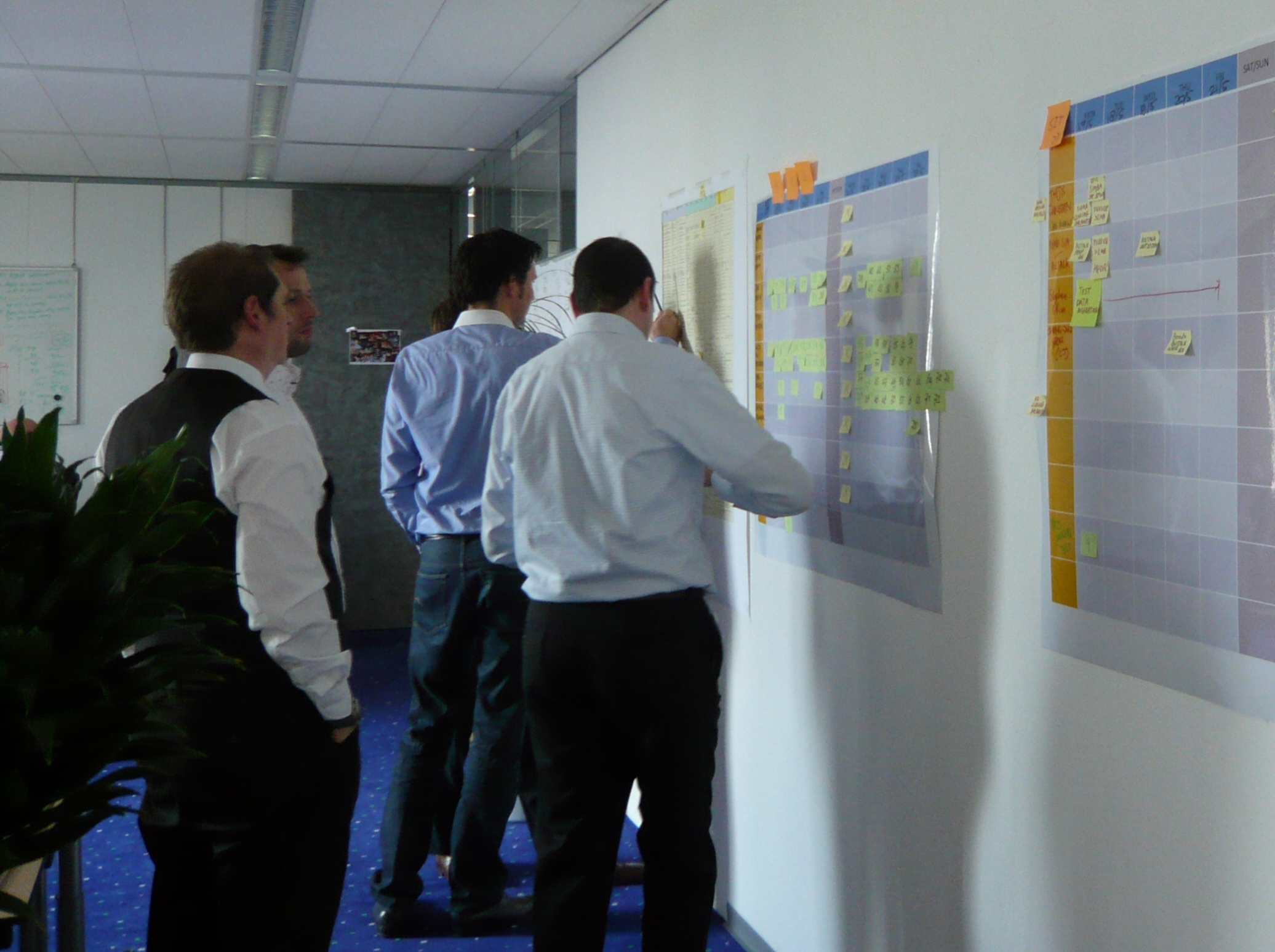 In the weeks prior to an important milestone, computer consultants give up on automated scheduling and resort to an old fashioned planboard to agree on who does what when. Such impromtu gatherings promote creativity and exchange of information that works positively towards an on-time result. Automated scheduling works well for the bigger picture, but often the detailed tasks must be discussed live with the whole team.